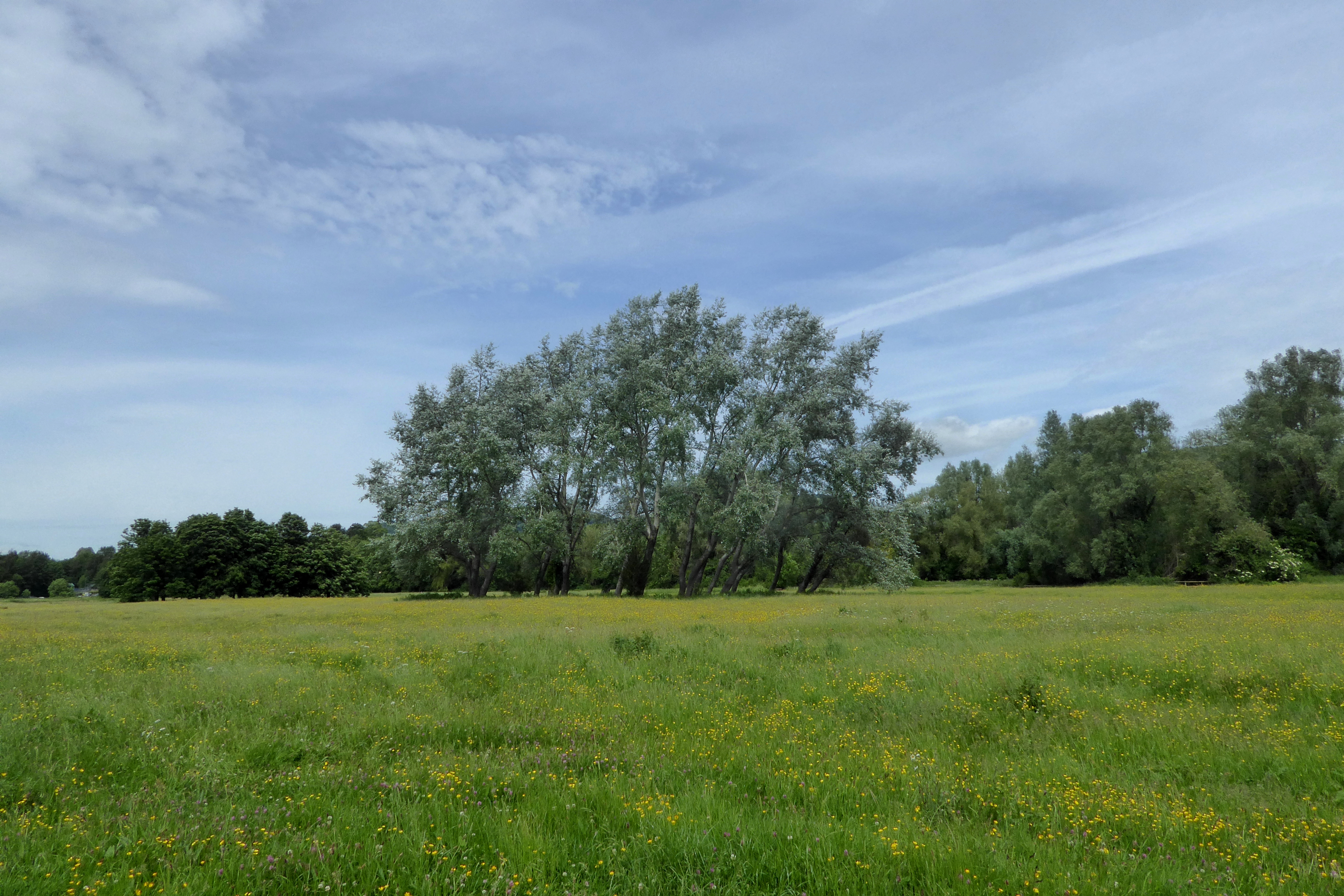 A field to the south of Abergavenny, lookinnorth towards the area where the Gobannium Roman fort once stood.